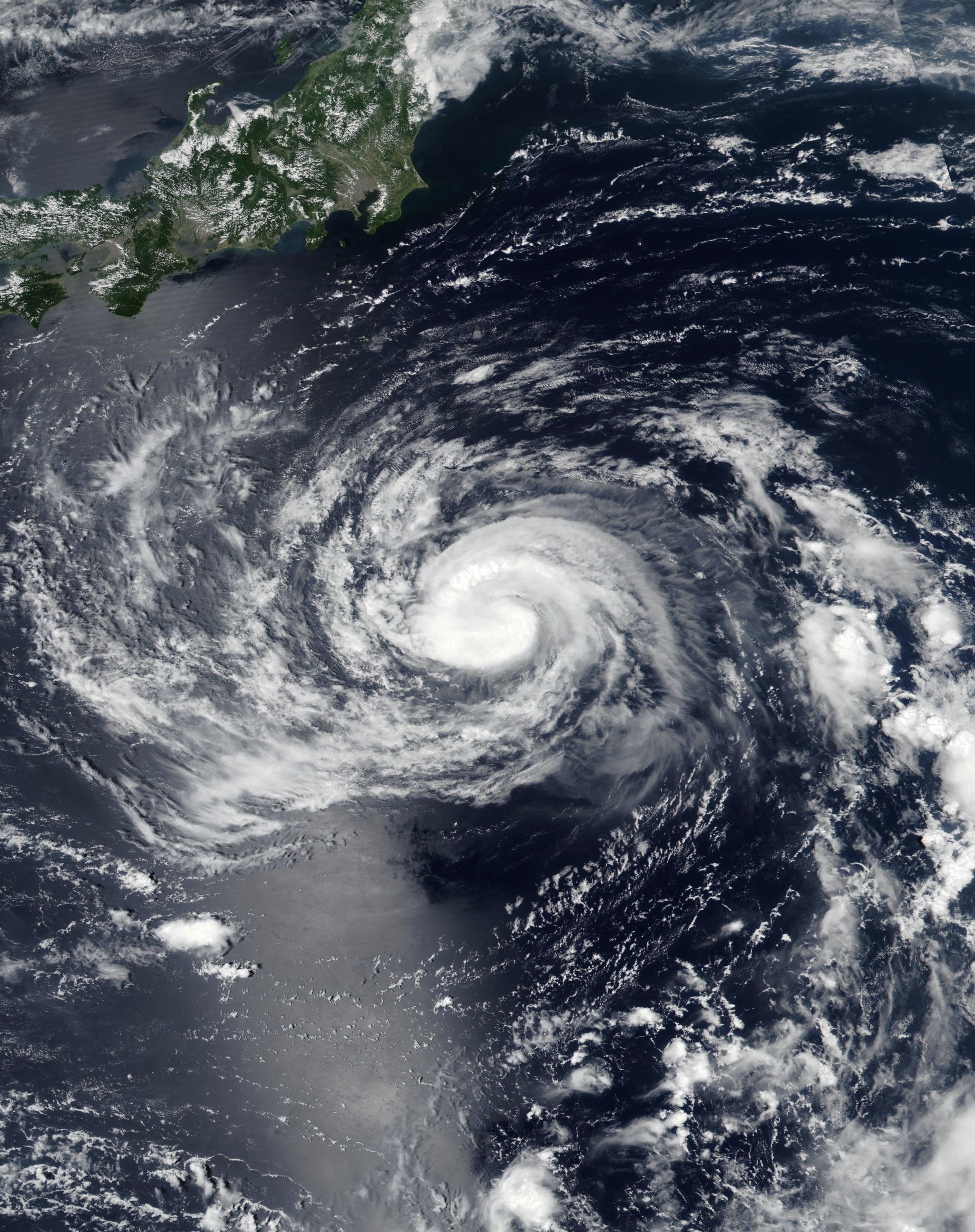 Tropical Storm Francisco on August 4, 2019